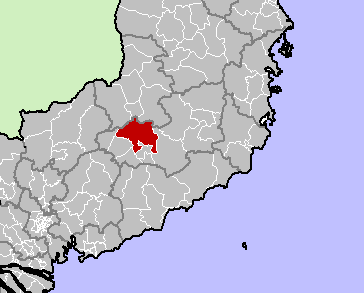 Bao Lam District, Lam Dong Province, Vietnam.